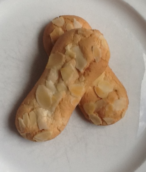 cookies named wellingtons